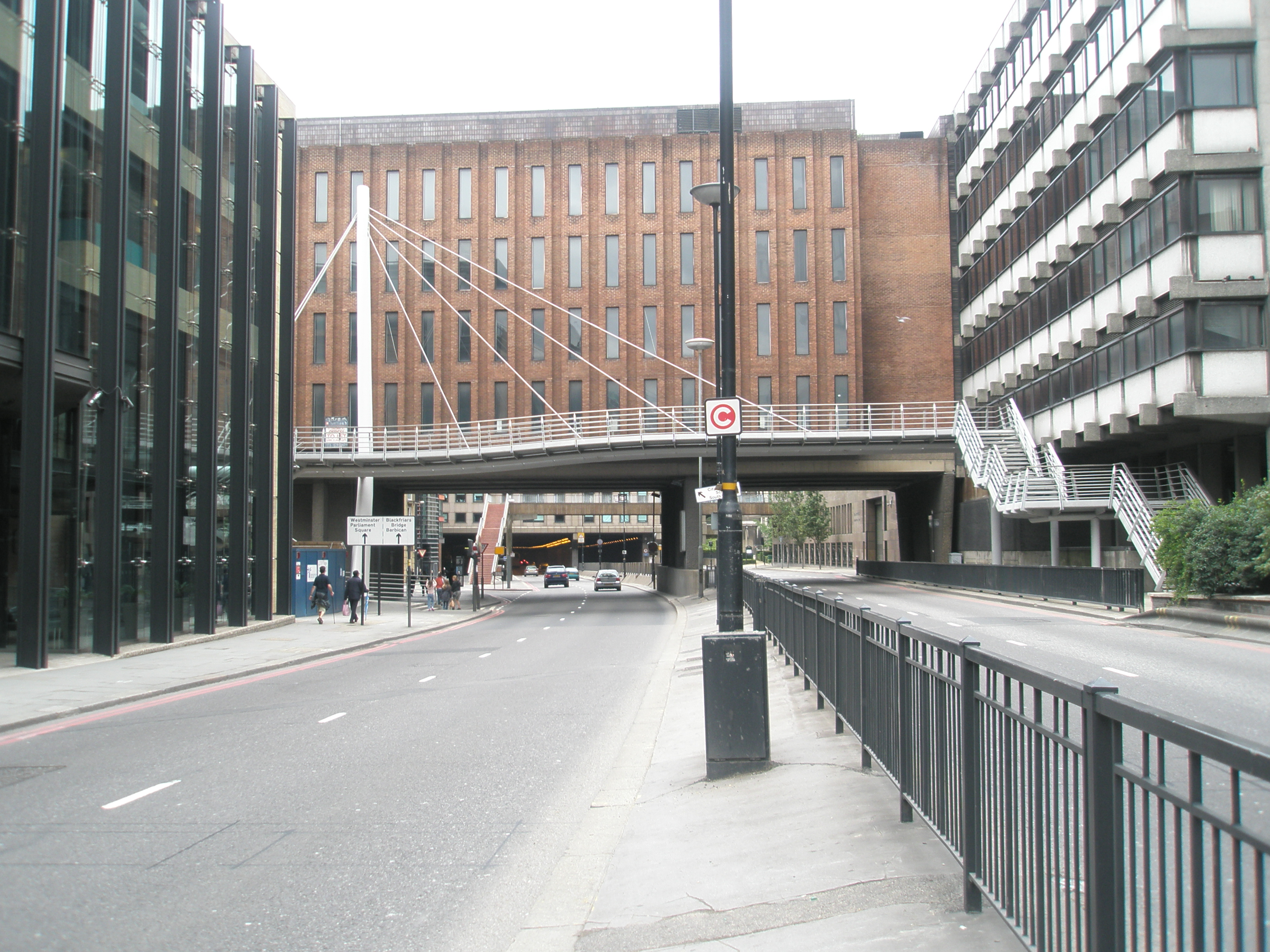 Upper Thames Street. Onetime site of St Michael Queenhithe.